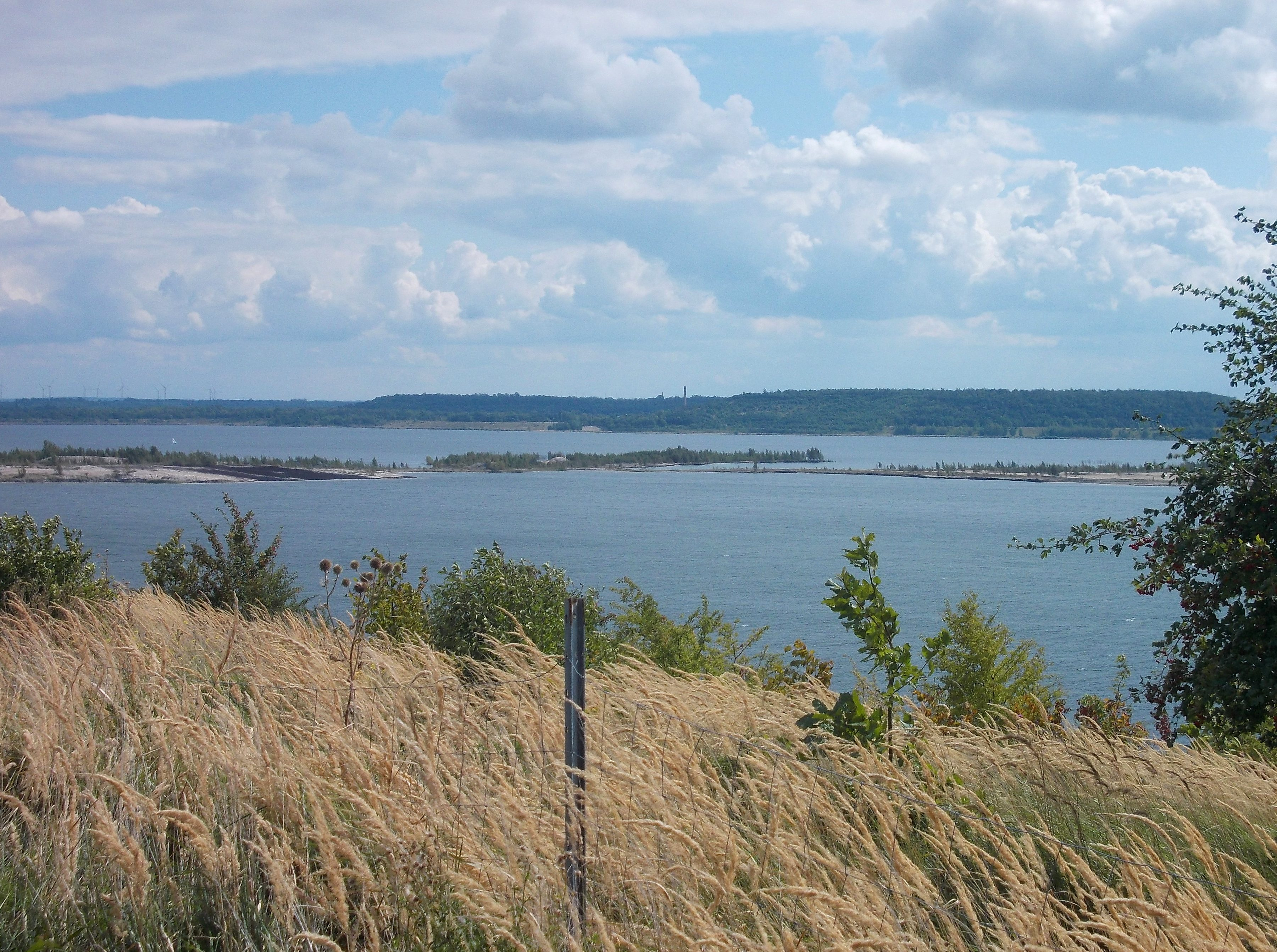 View of Geiseltal Lake (district: Saalekreis, Saxony-Anhalt) from the northern shore